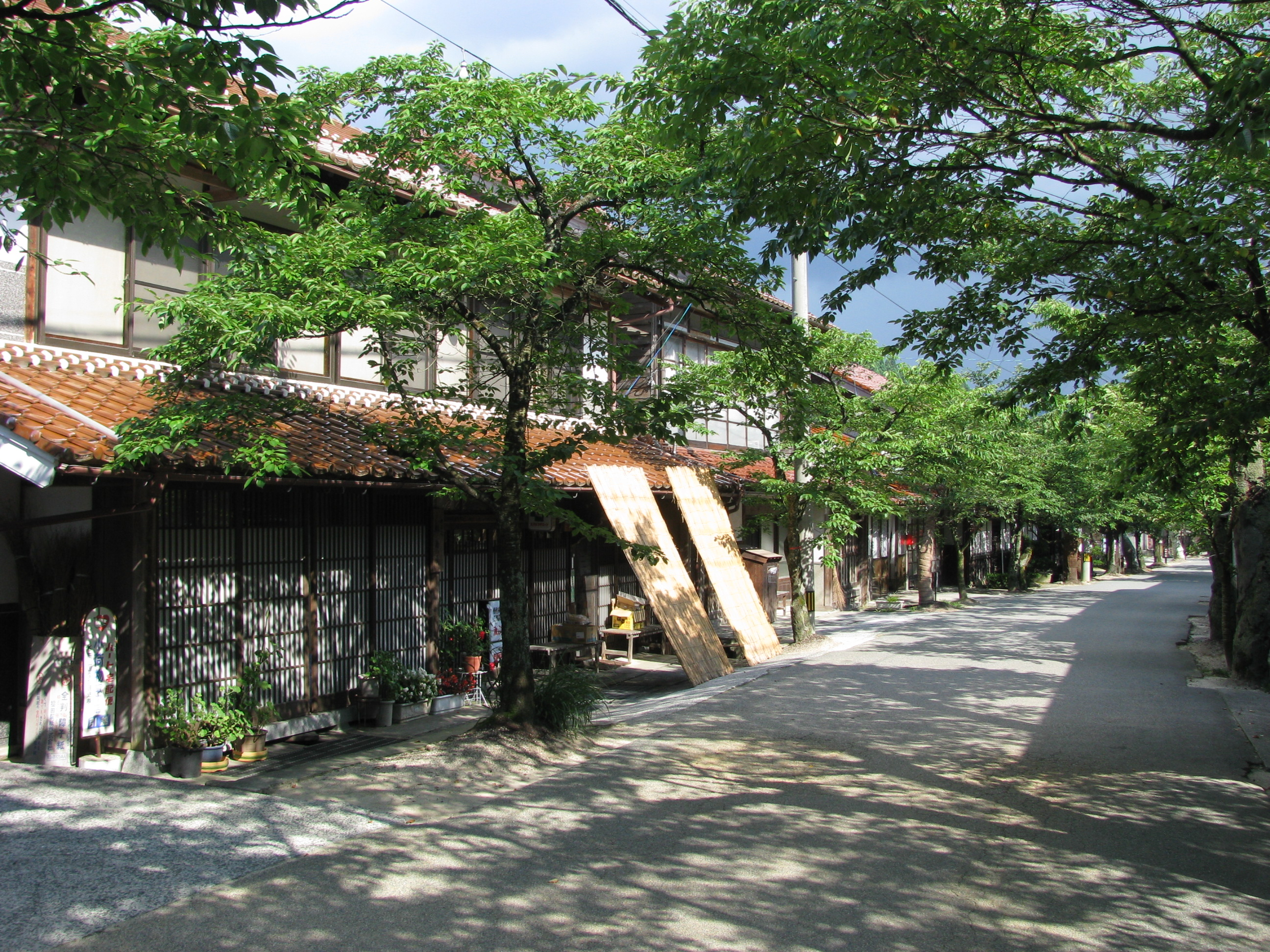 The Shinjō-juku at Izumo-kaido. This place is Shinjō, Okayama, Japan.